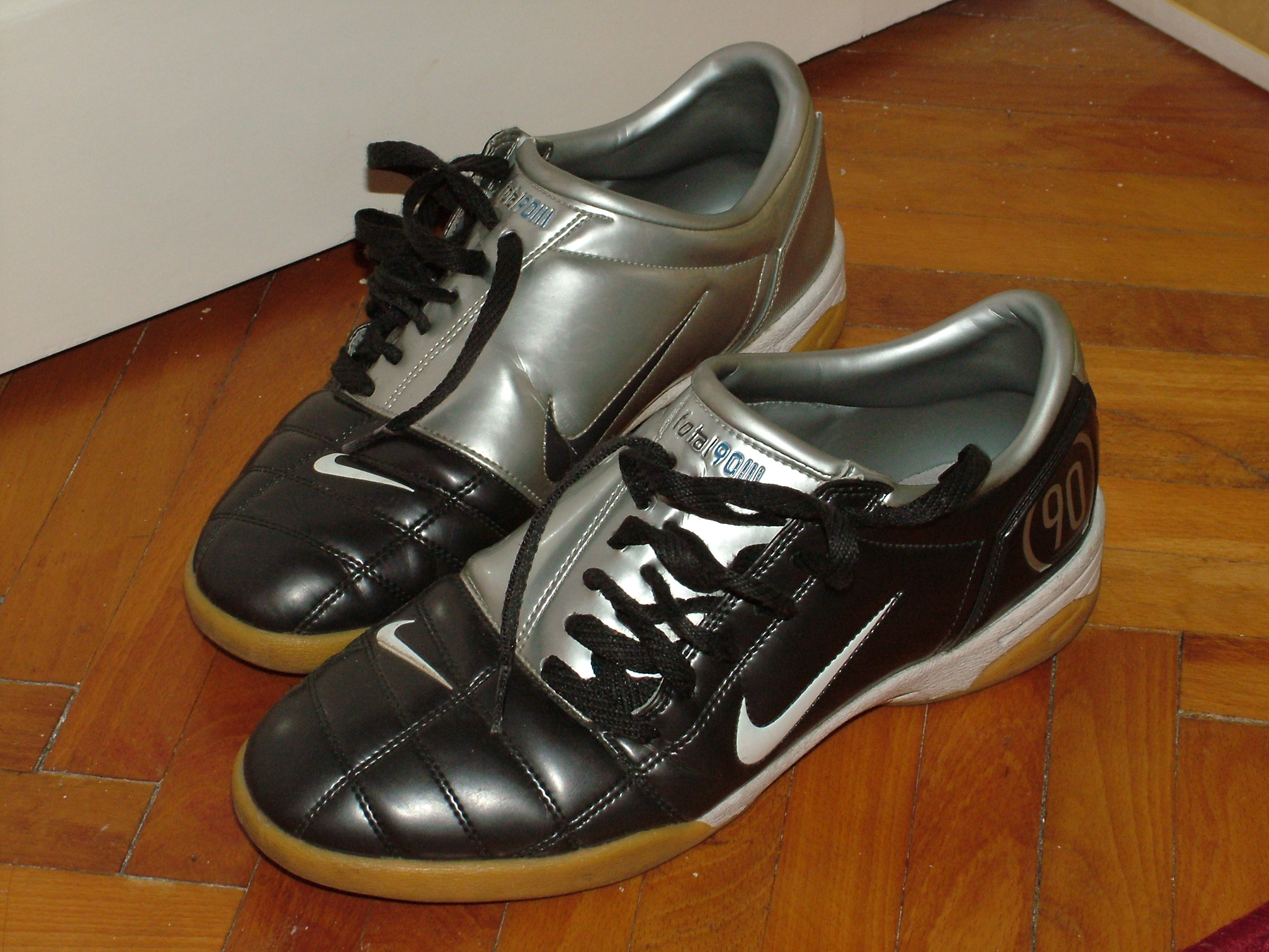 Nike Total 90 III football boot